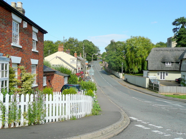 High Street, Thurleigh, near to Thurleigh, Bedfordshire, Great Britain. Looking east from the Church End junction, with The Jackal pub on the left.